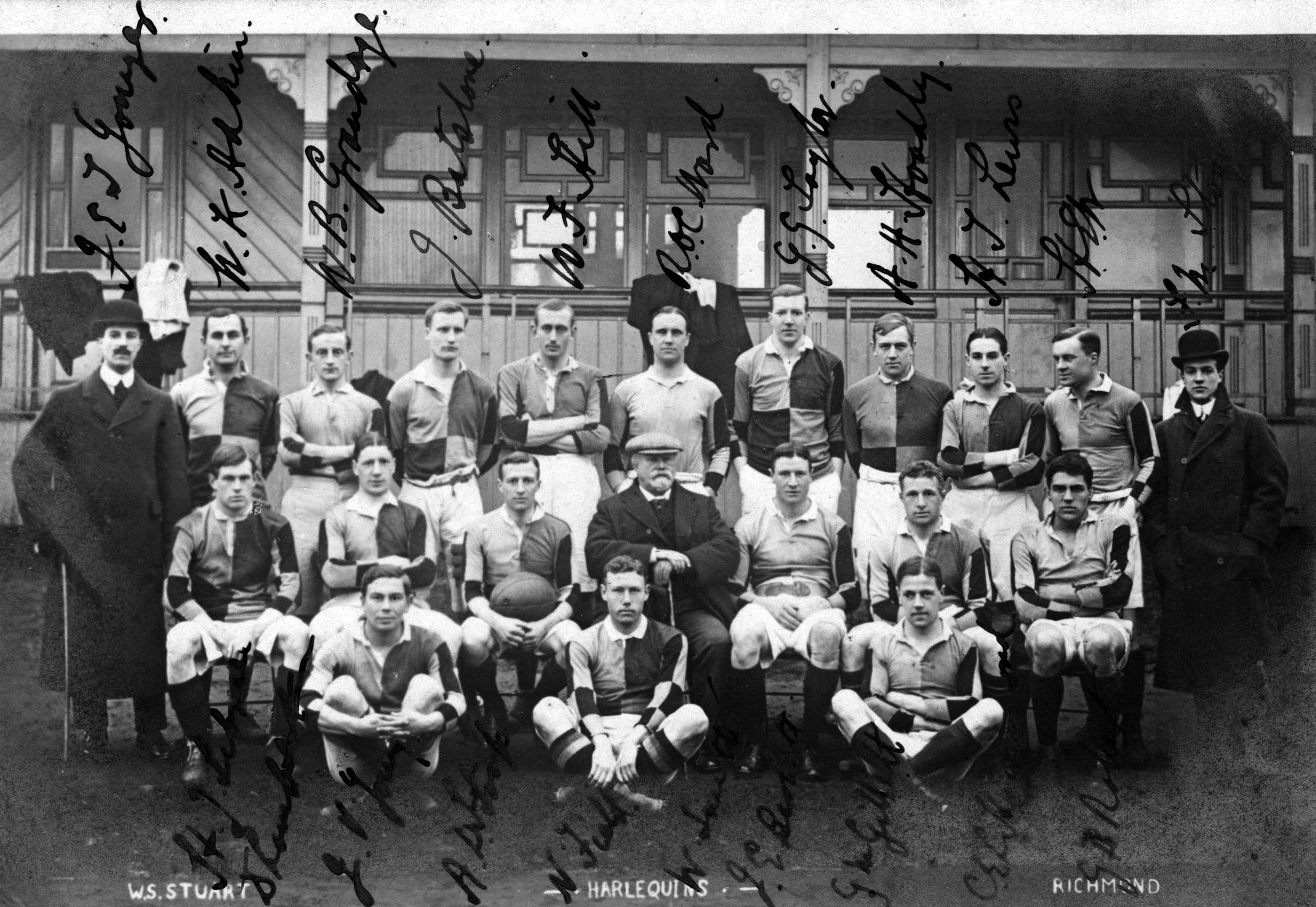 The Harlequin F.C. team in a post card signed by the players.